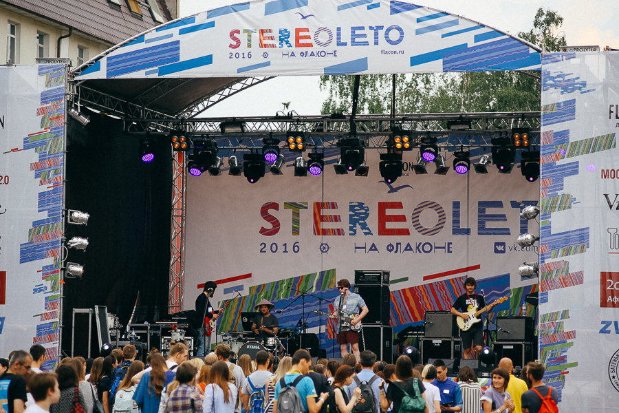 Flacon Design Factory